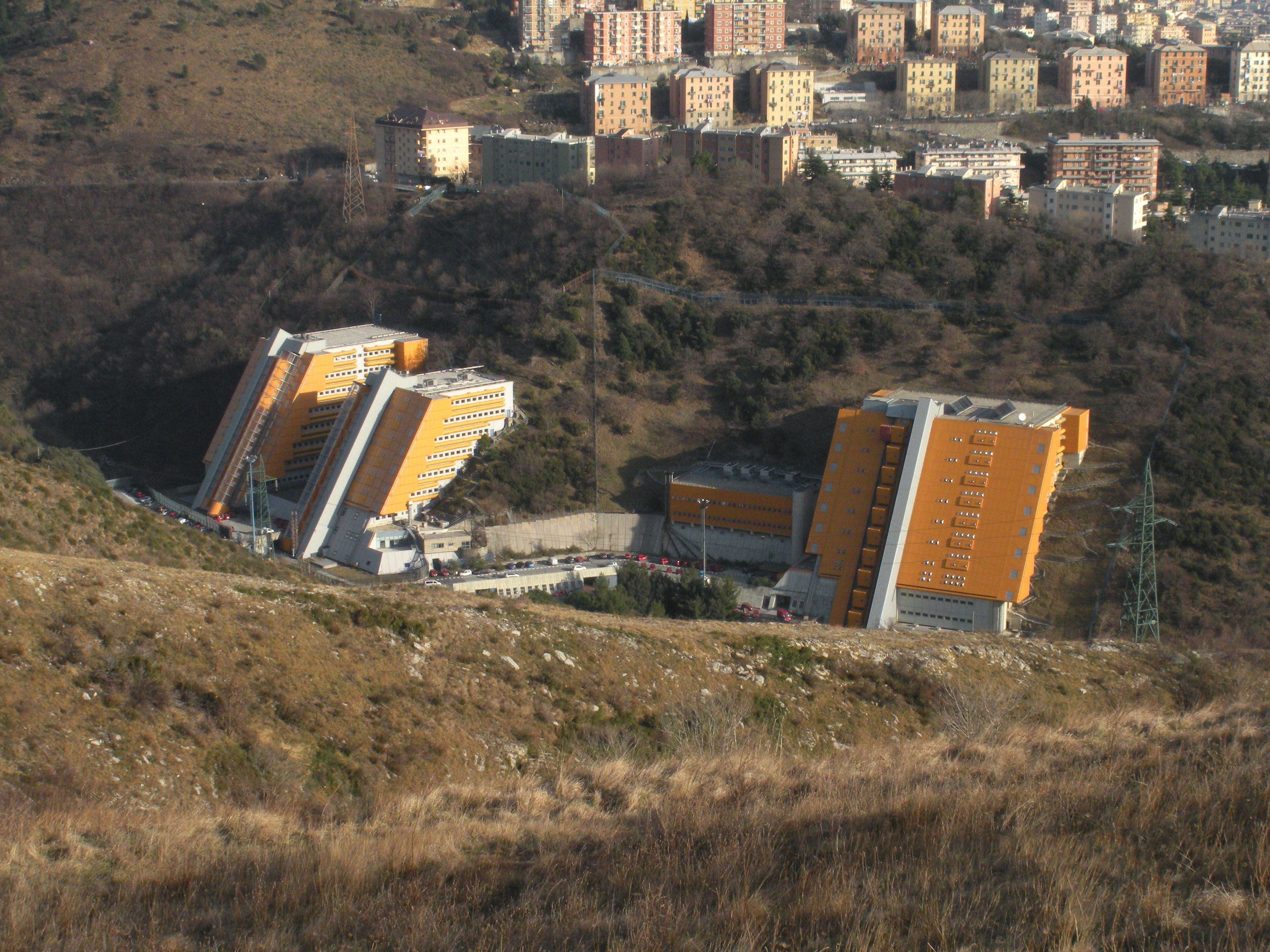 Genoa (Italy), Telecom headquarters in the quarter of Lagaccio